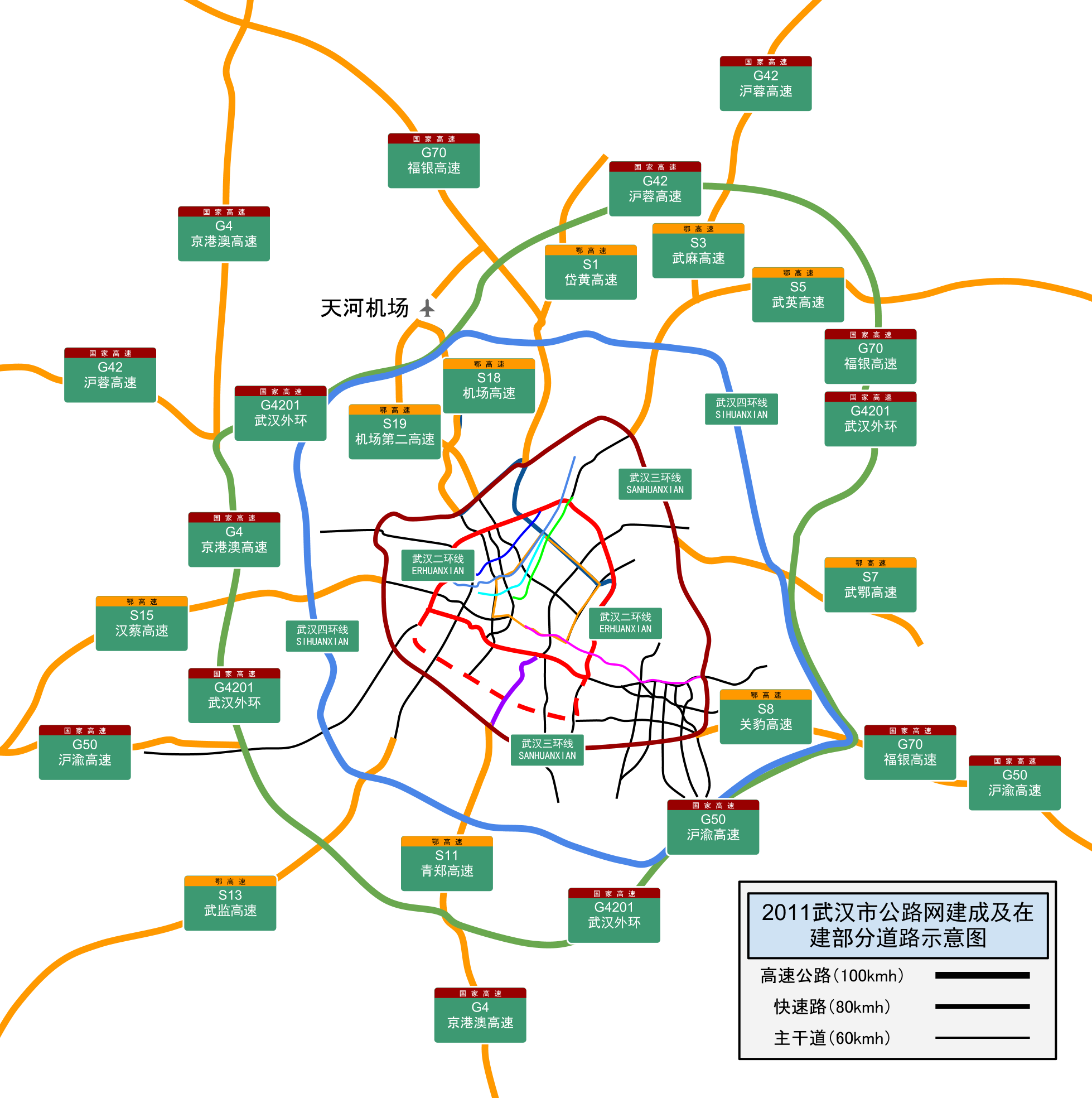 Wuhan road network, including outer ring, third ring, fourth ring, and miscellaneous expressways